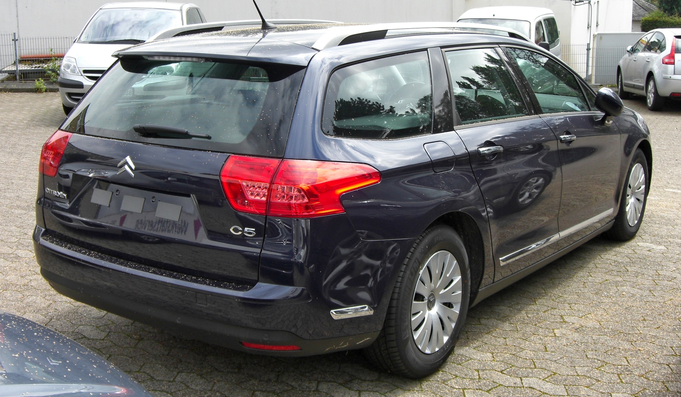 Citroën C5 II Tourer